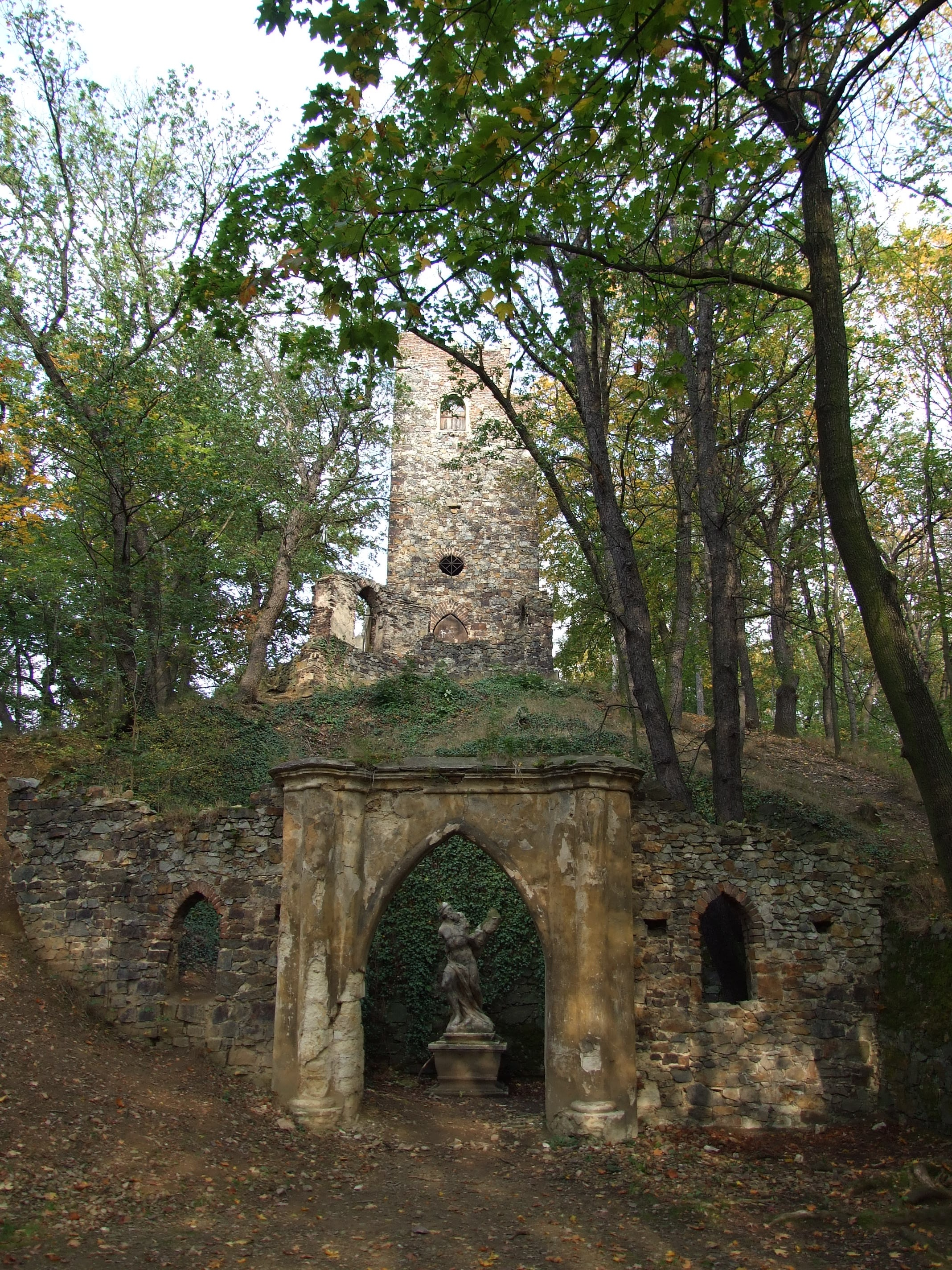 The Cibulka park in western part of Prague